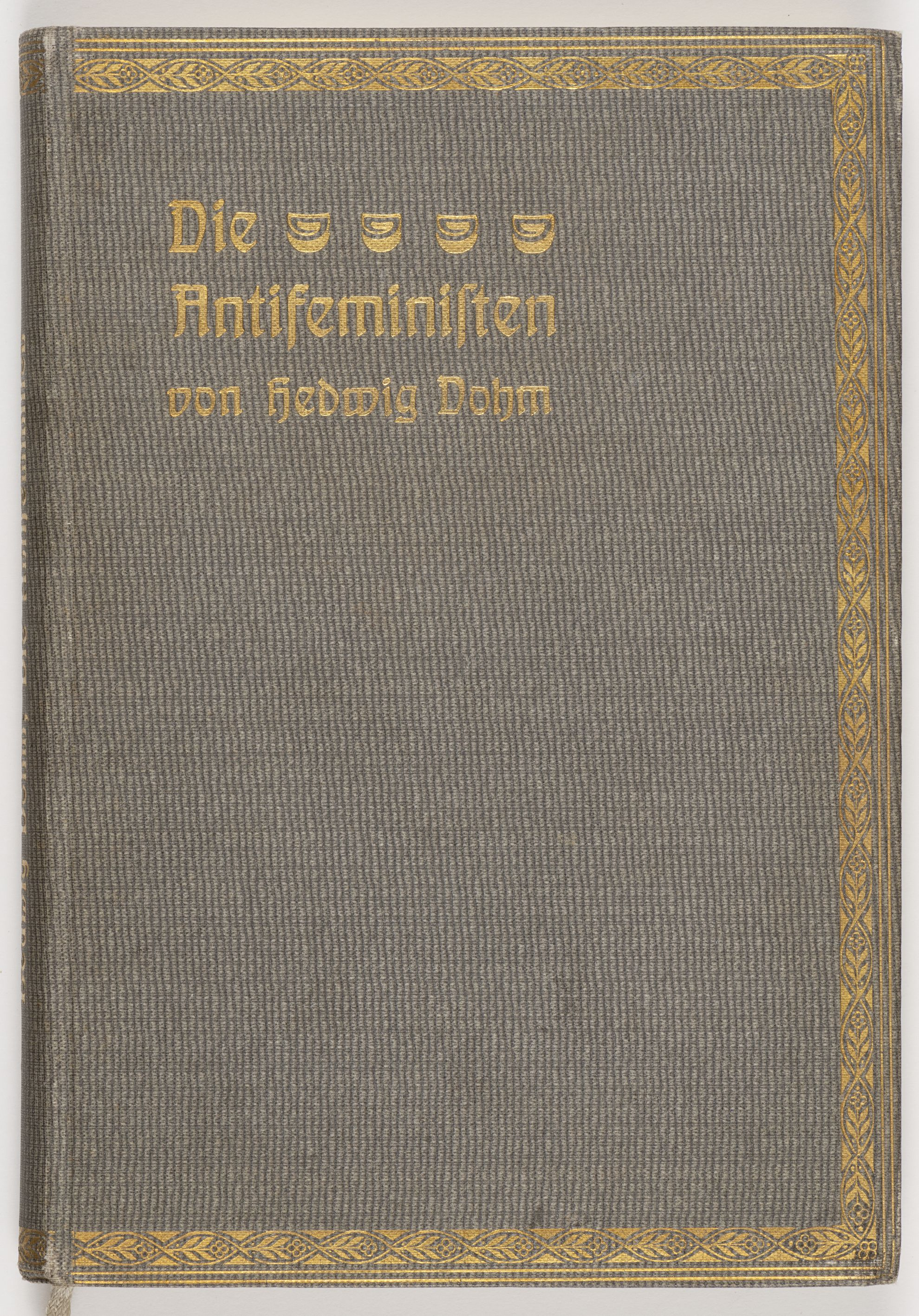 Hedwig Dohm: Die Antifeministen. Ein Buch der Verteidigung (The anti-feminists. A book of defense), book, Berlin, 1902. Photo of book in repository of Archiv der deutschen Frauenbewegung (Archive of German Women's Movement), Kassel. Photographer: Horst Ziegenfusz on behalf of Historisches Museum Frankfurt (Historical Museum Frankfurt). Published in Dorothee Linnemann (ed.): Damenwahl! 100 Jahre Frauenwahlrecht. Begleitbuch zur Ausstellung. Societäts-Verlag, Frankfurt am Main 2018, ISBN 978-3-95542-306-3, p. 51.